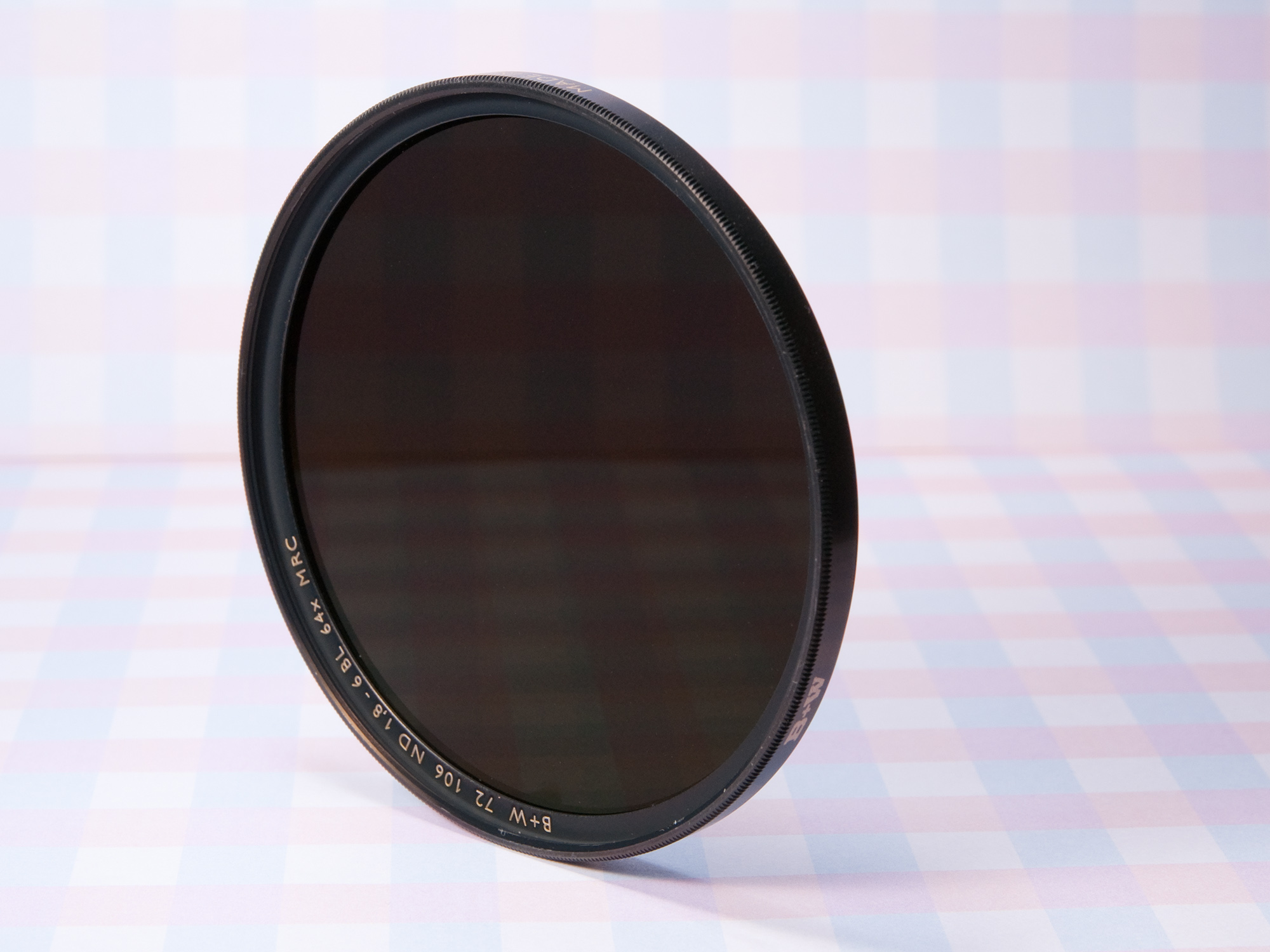 Neutral density filter with filter optical density 1.8 Filter size: 72mm